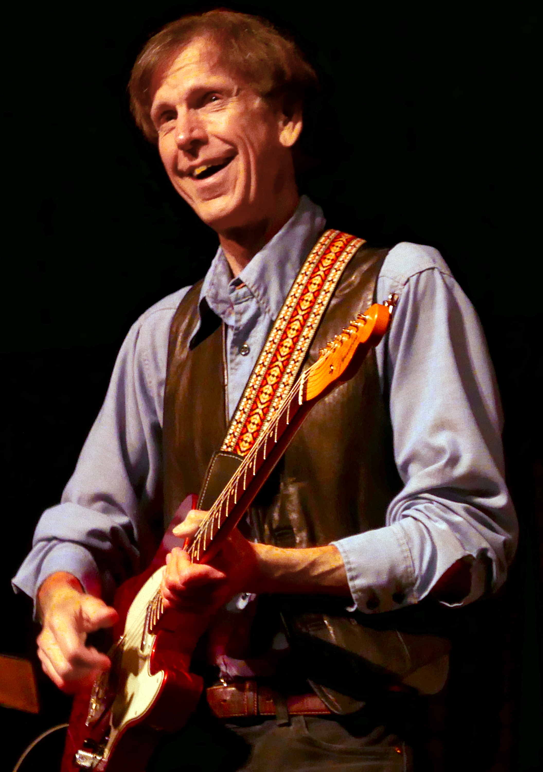 Tom Leadon performing with Mudcrutch on June 20, 2016 at The Fillmore, San Francisco